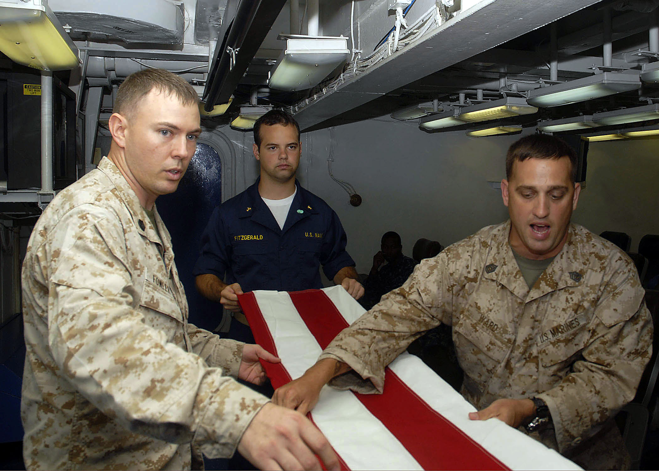 ATLANTIC OCEAN (July 6 2009) Gunnery Sgt. William Ward and Gunnery Sgt. Daniel Fowler, both embarked aboard the amphibious assault ship USS Nassau (LHA 4), teach Midshipman 1st Class William Fitzgerald, from the U.S. Naval Academy, how to fold an American flag for a military burial. (U.S. Navy photo by Mass Communication Specialist 3rd Class Jonathan Pankau/Released)